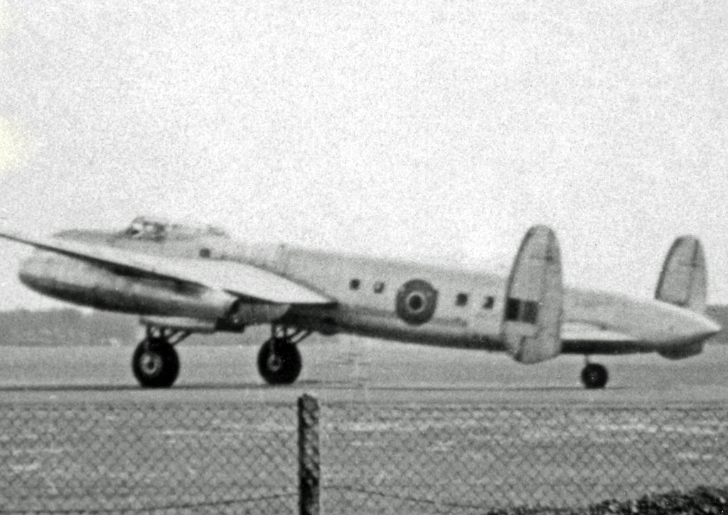 Avro 691 Lancastrian VH742 operated by Rolls-Royce Limited and fitted with two outboard RR Nene jet engines